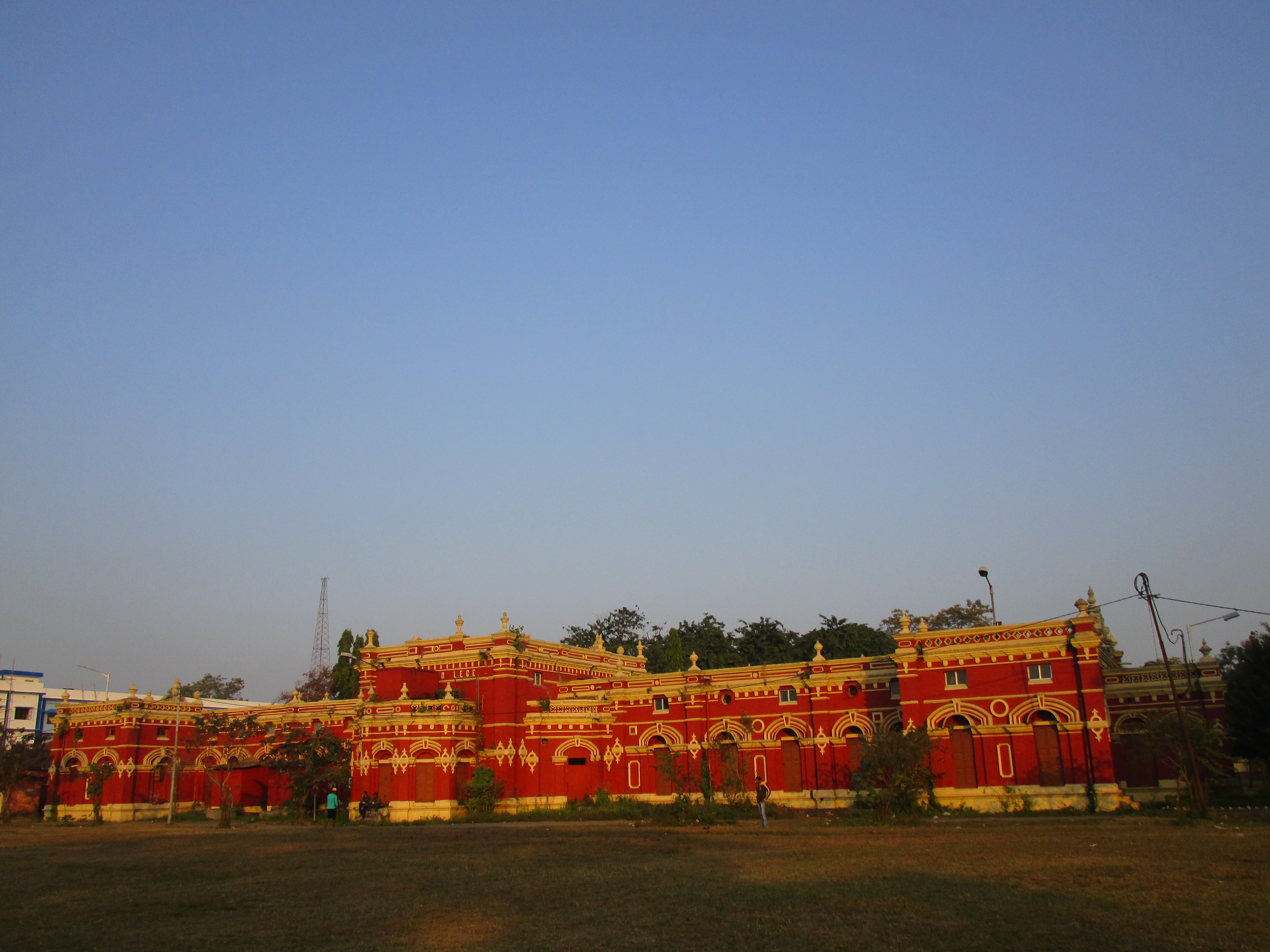 Brojendranath Shil College Building at Coochbehar town.